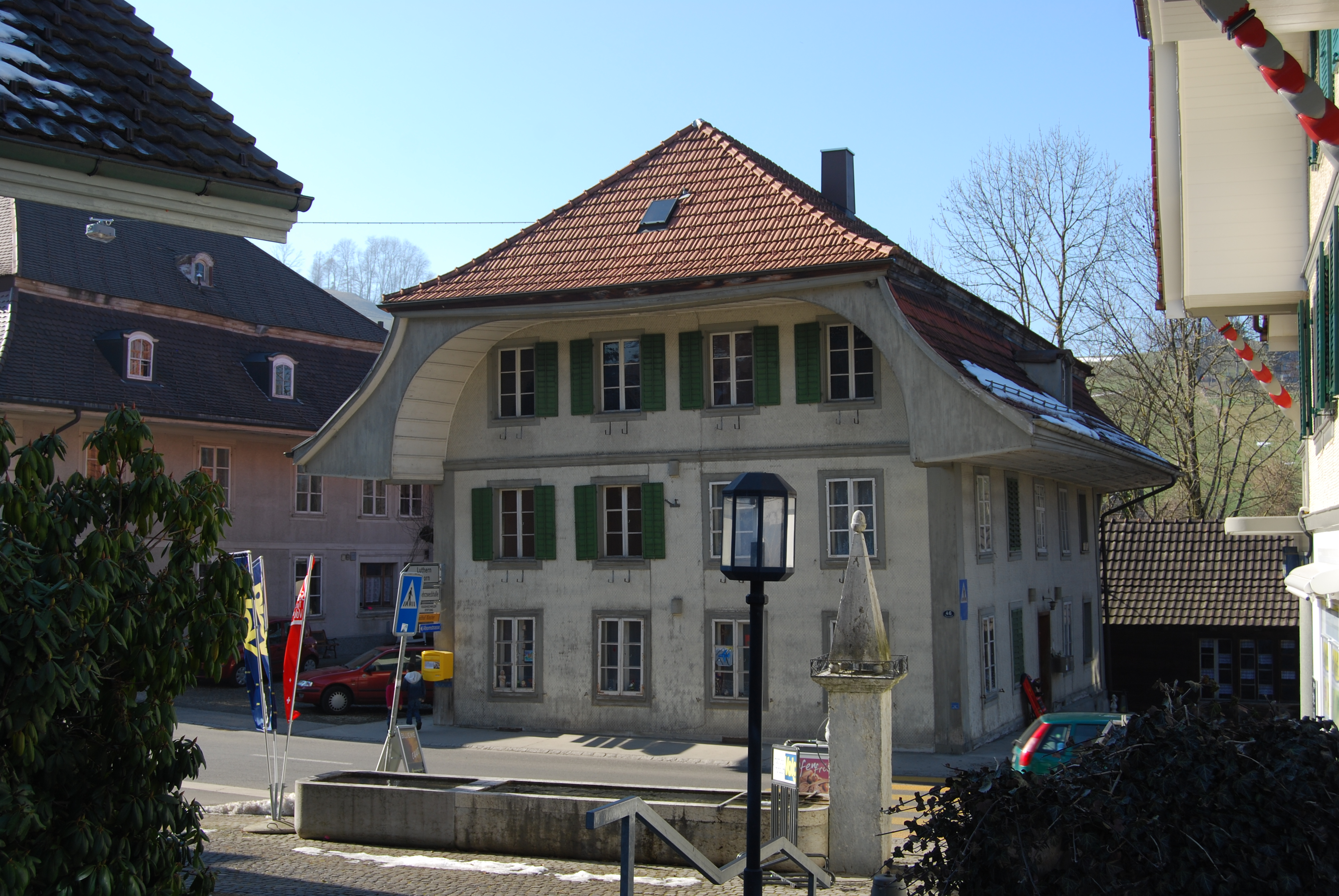 Eriswil, canton of Bern, SwitzerlandEsperanto: Eriswil, Kantono Berno, Svislando